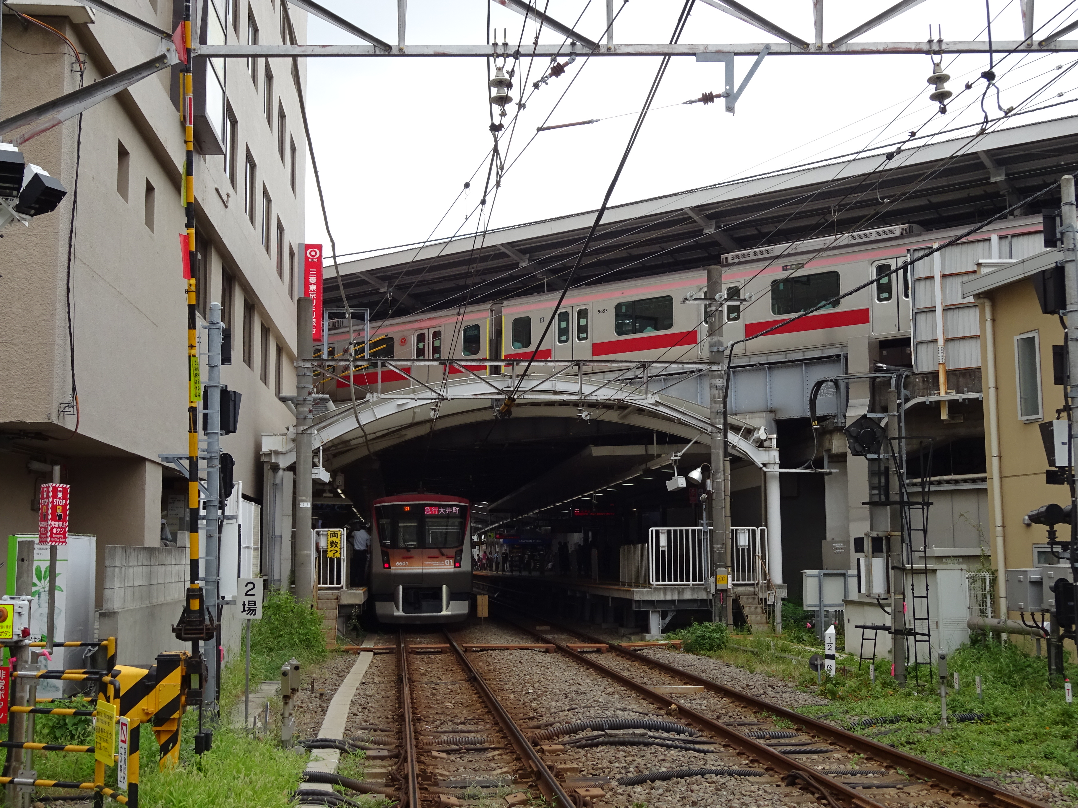 Jiyūgaoka Station (Tokyo)